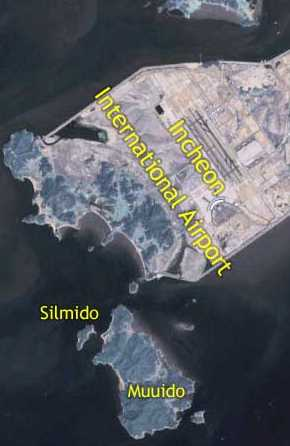 Silmido, an island of South Korea off the coast of Incheon.